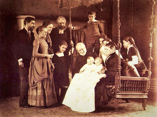 Portrait of Louis Comfort Tiffany (far left) with his parents (seated) holding Tiffany's twin daughters, Louise and Julia. Image courtesy of the Mitchell-Tiffany Family Papers, Yale University Manuscripts & Archives Digital Images Database. Retouched by MarmadukePercy.